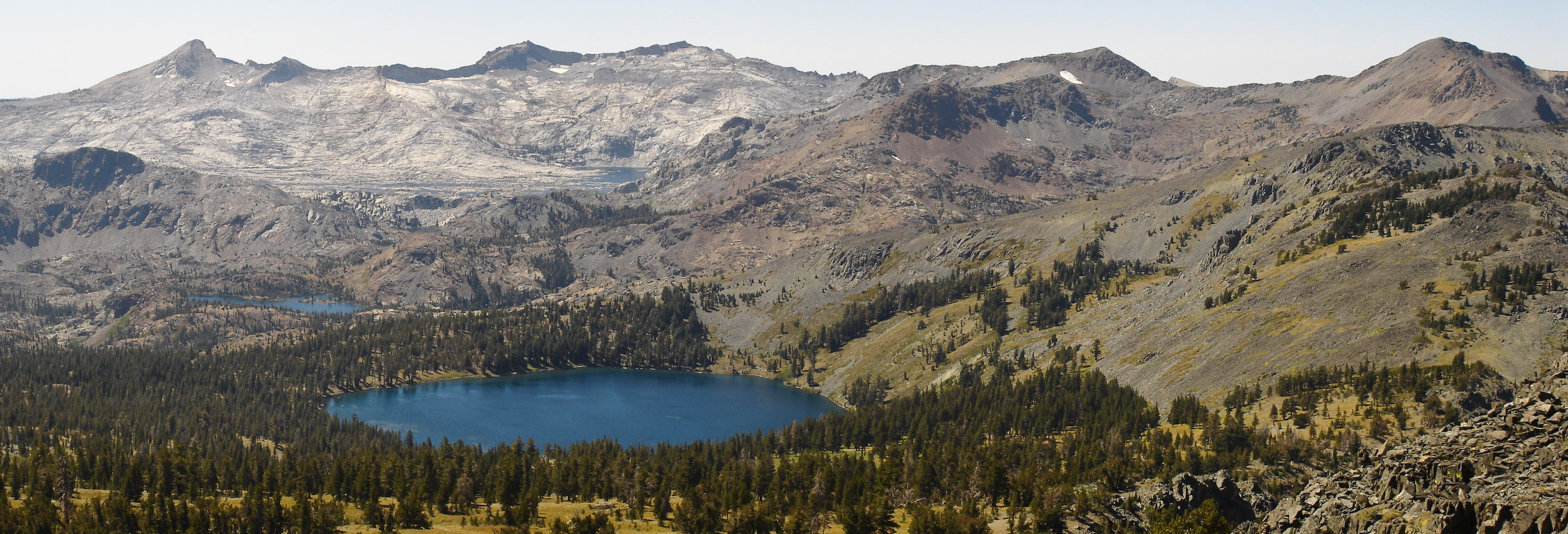 View of Crystal Range and Gilmore Lake from Mount Tallac, near Lake Tahoe, California, United States